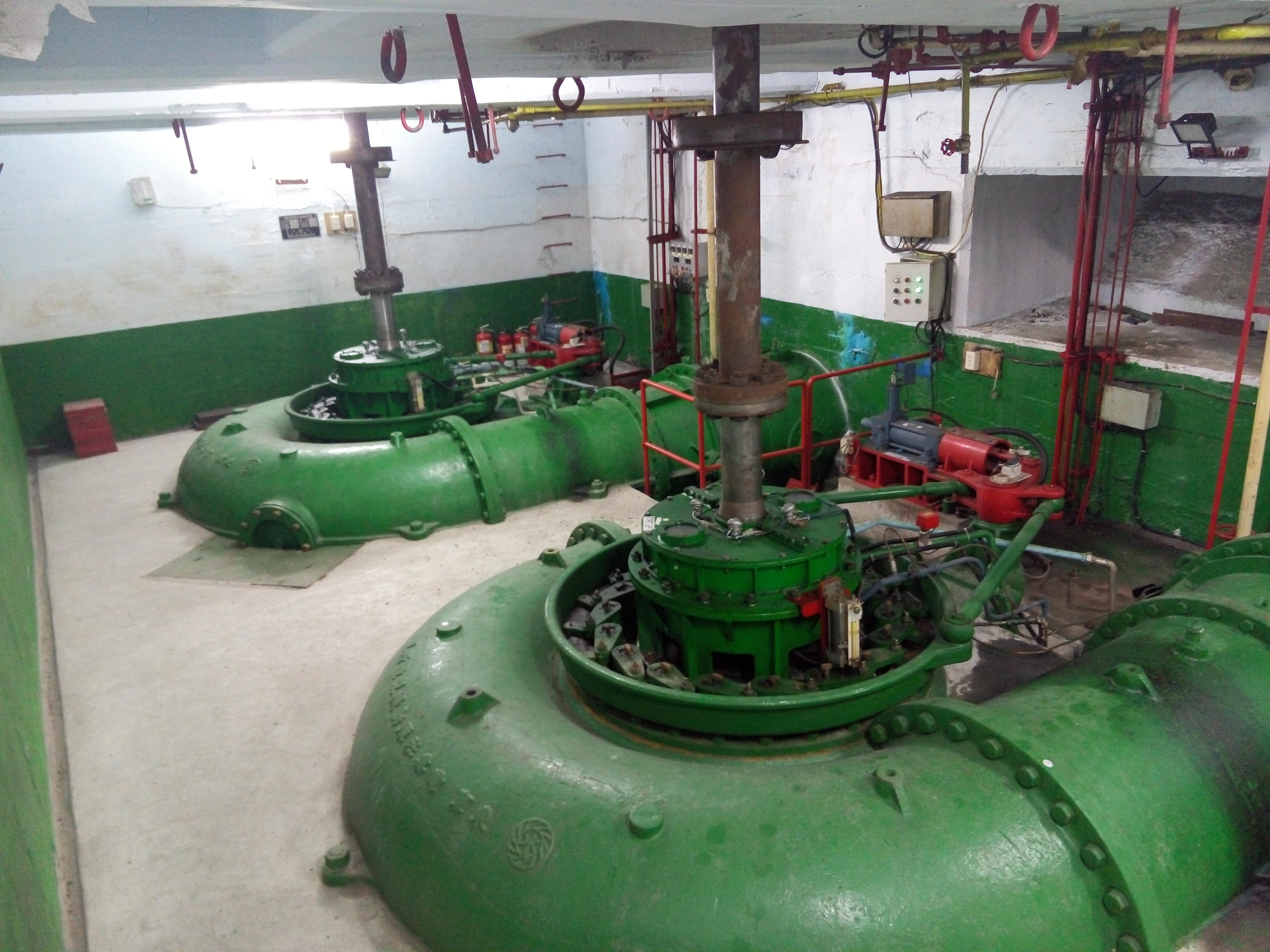 Tong-Xin Hydroelectric power plant Hydraulic Turbine Factory building